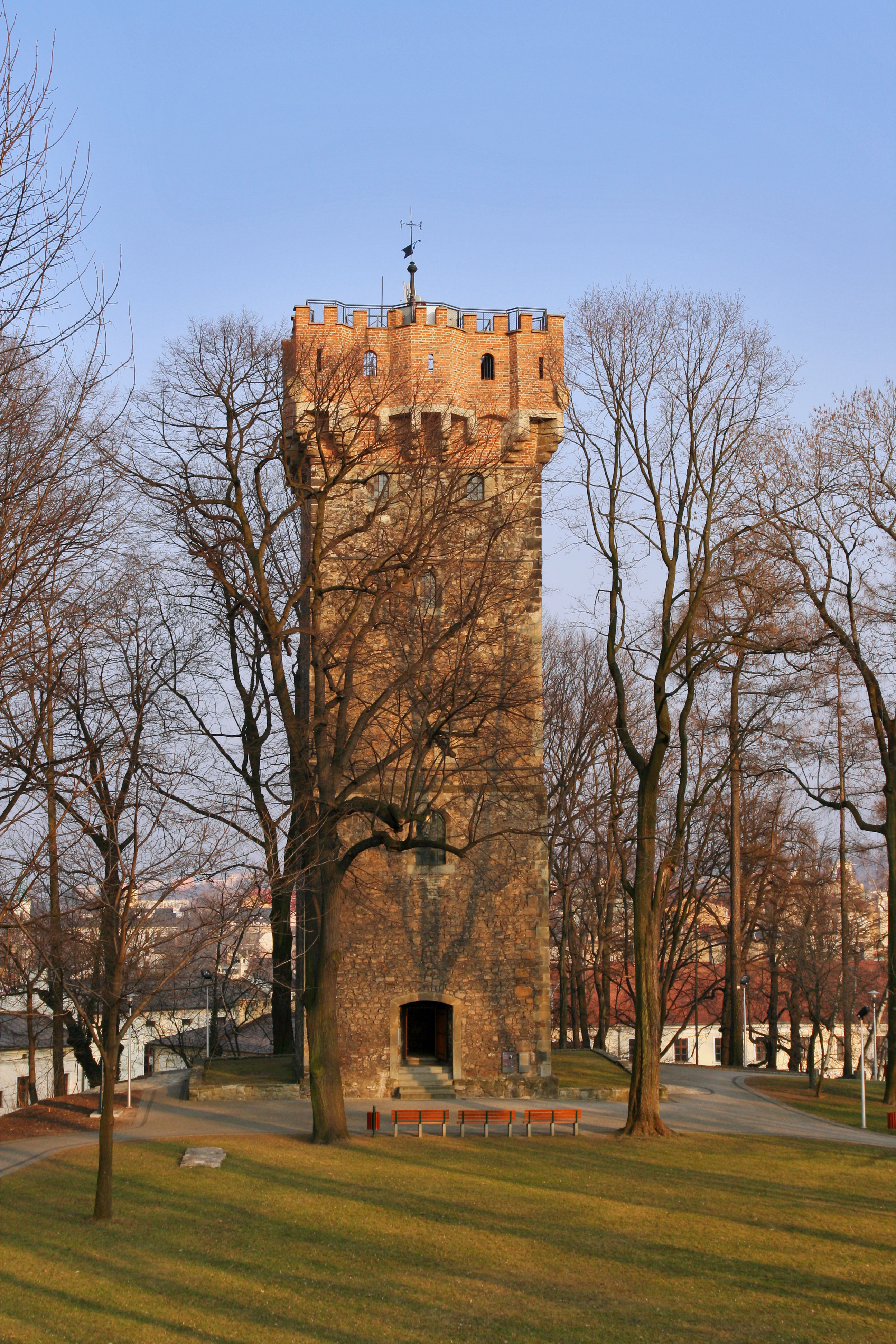 Piast Tower on Castle Hill in Cieszyn.